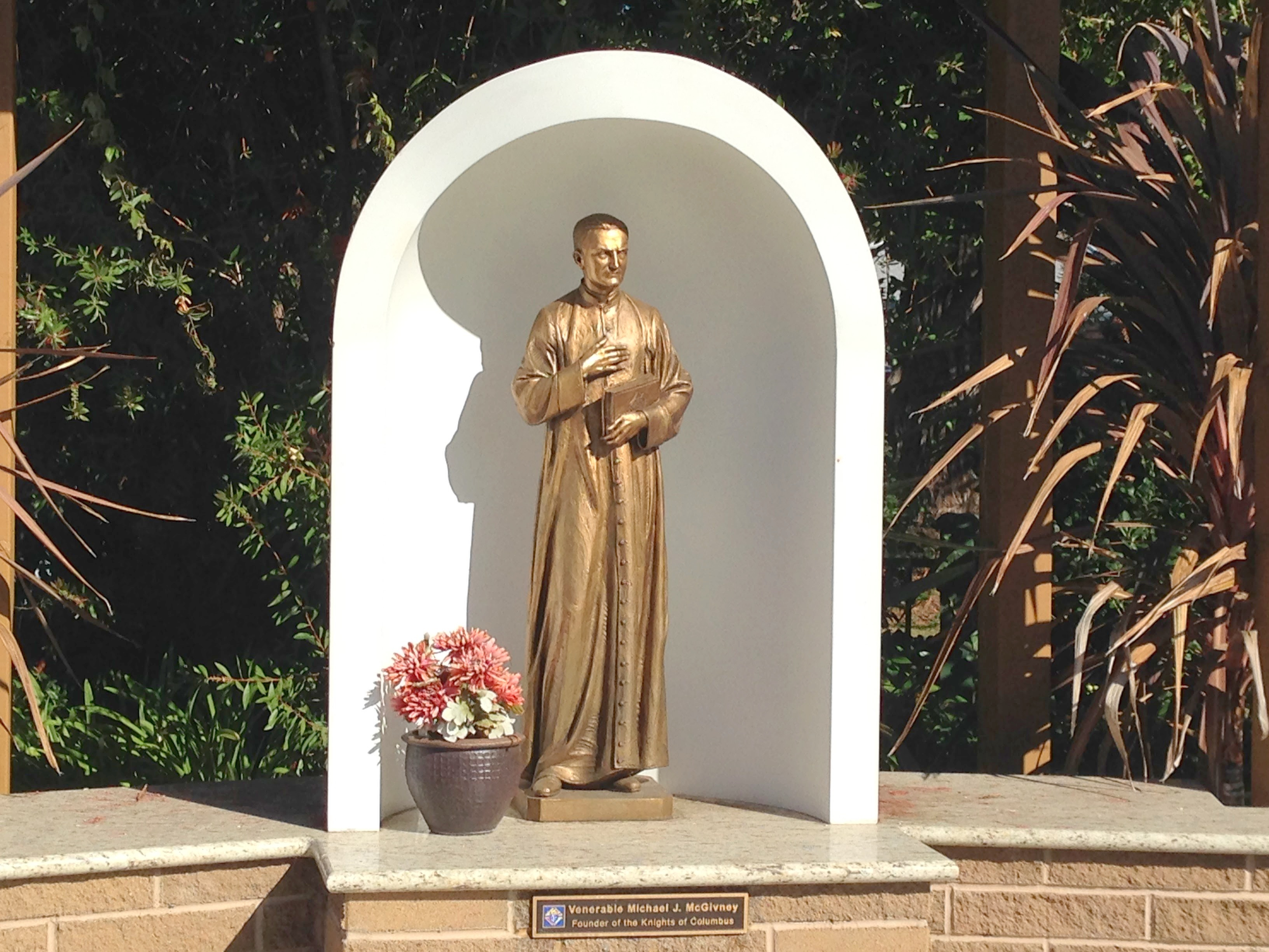 Monument of the Venerable Michael J. McGivney, Founder of Knights of Columbus, at the Church of the Ascension, San Jose, CA USA